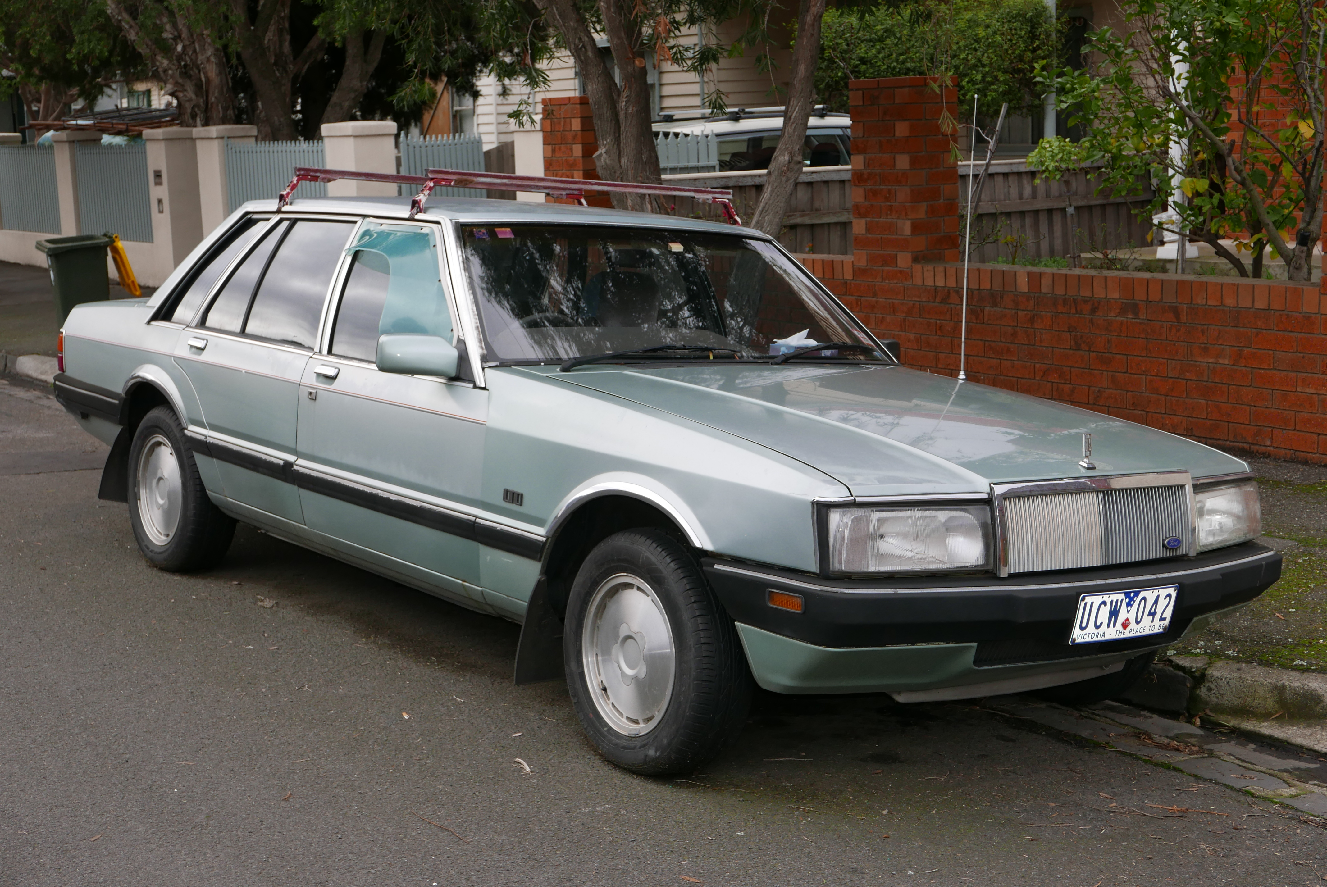 1987 Ford LTD (FE) sedan. Photographed in Brunswick East, Victoria, Australia. Vehicle registration enquiry results Jurisdiction Victoria Registration UCW042 Chassis code Not available Engine code JH71GA25079C Compliance date Not available Year of manufacture 1987